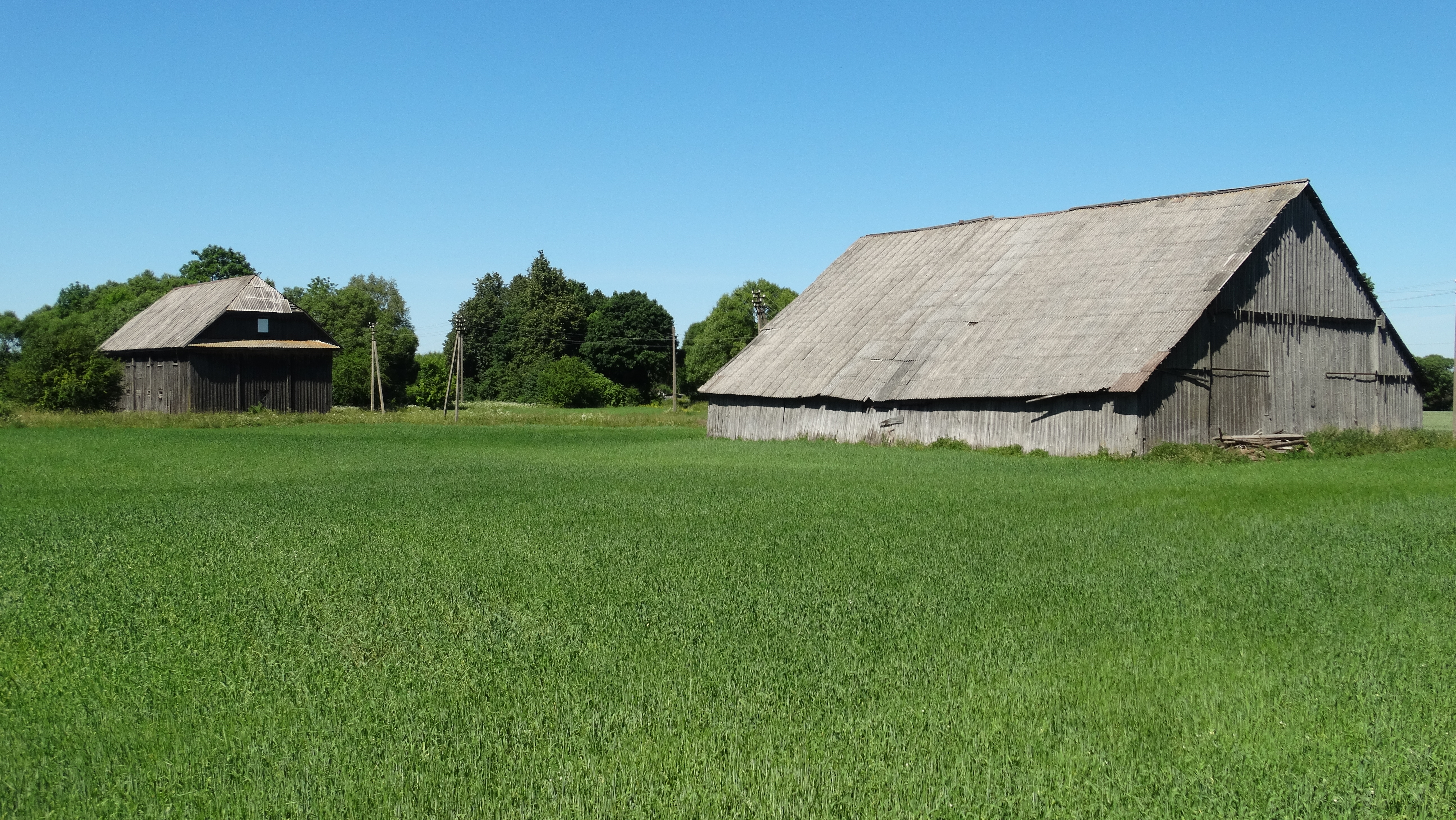 Former manor, Ročiai, Raseiniai District, Lithuania